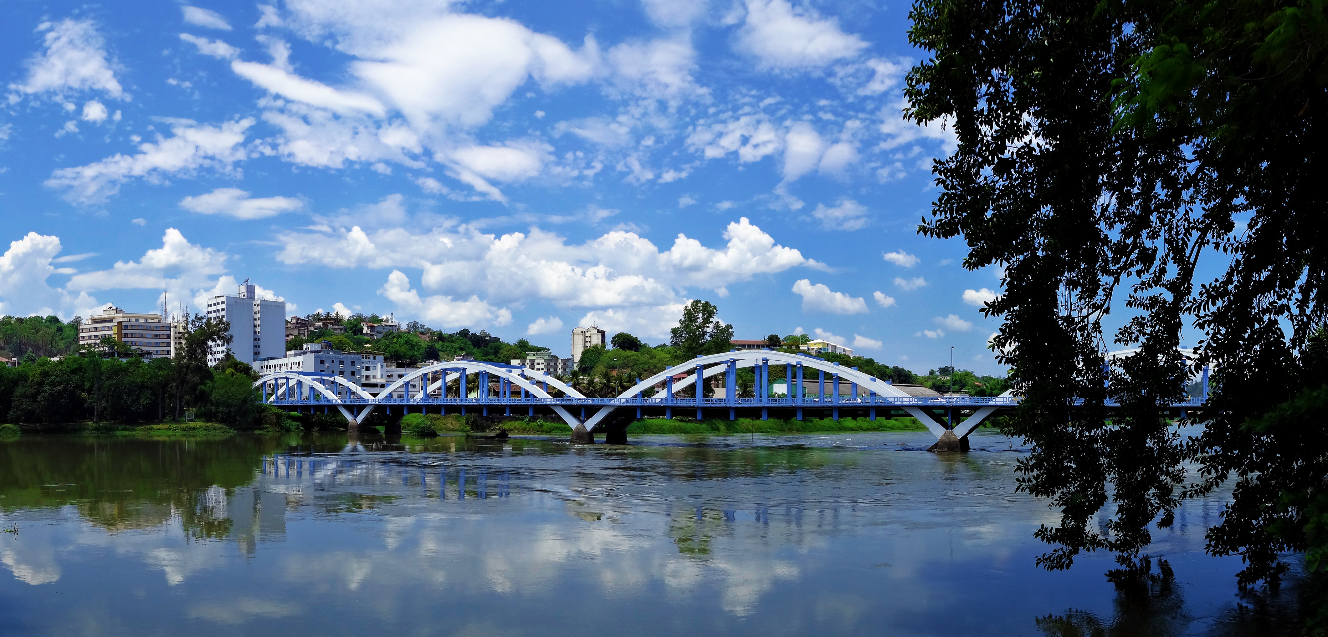 ponte dos arcos barra mansa